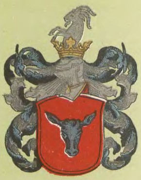 Półkozic coat of arms by Zbigniew Leszczyc published in "Herby szlachty polskiej"